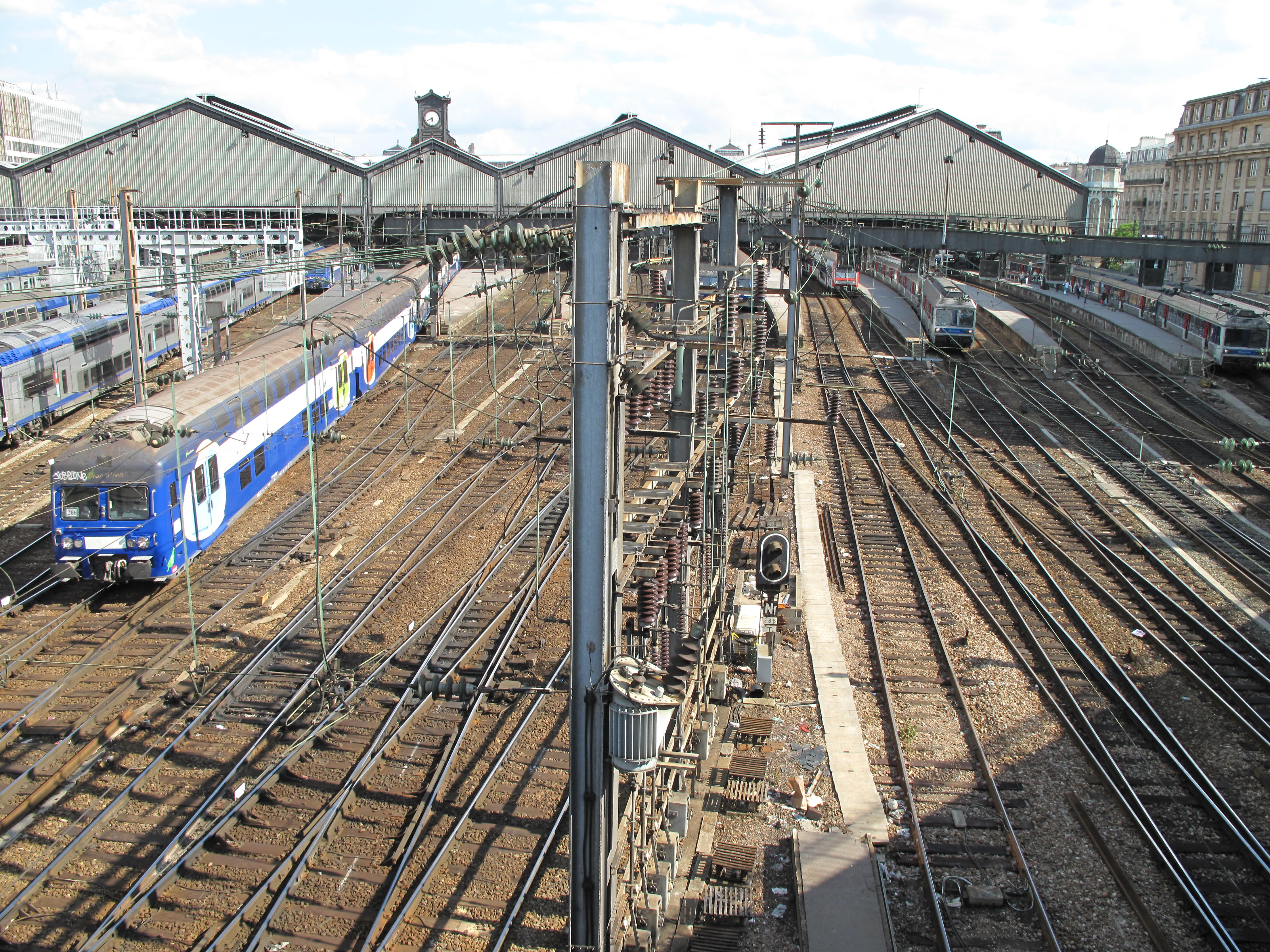 The tracks of the gare Saint-Lazare from the place de l'Europe (Paris).